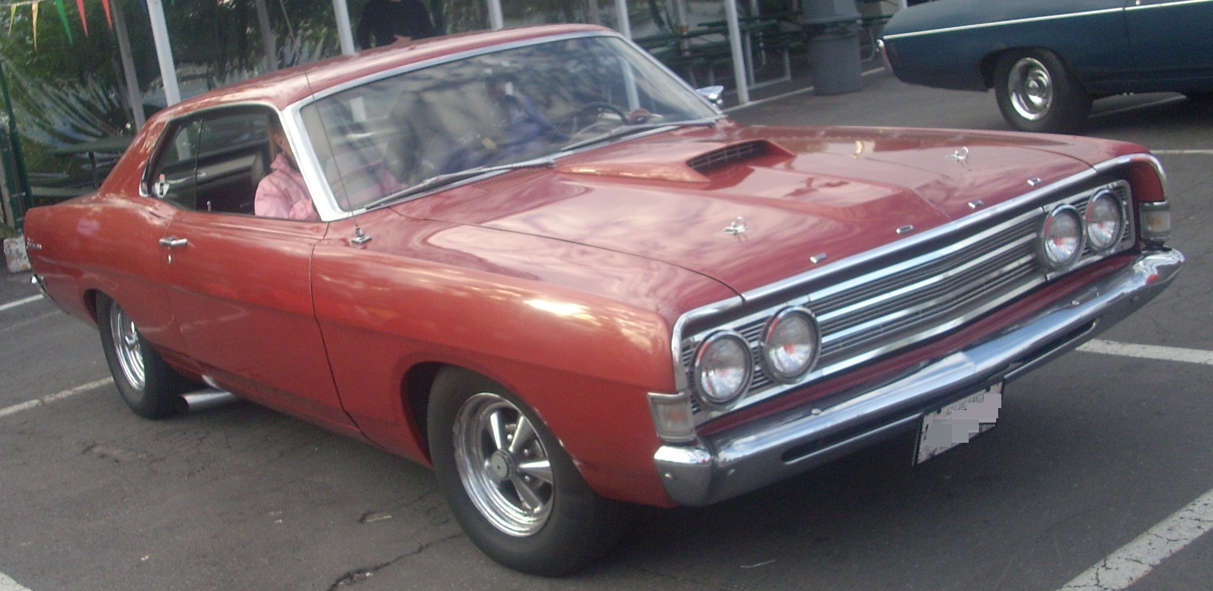 1969 Ford Fairlane 2-Door Hardtop photographed in Montreal, Quebec, Canada at Gibeau Orange Julep.